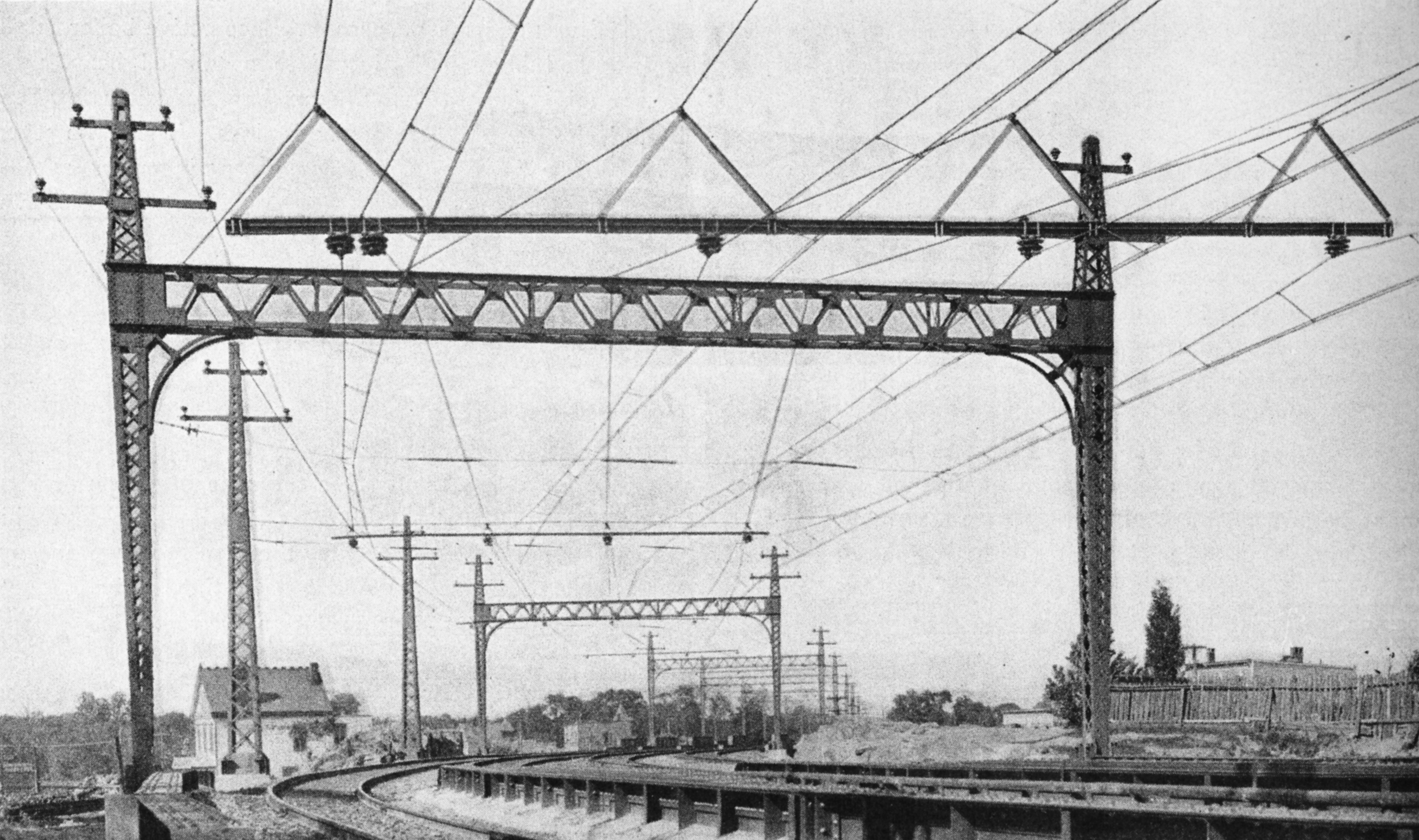 So called Compound Catenary of the New York, Westchester and Boston Railway.